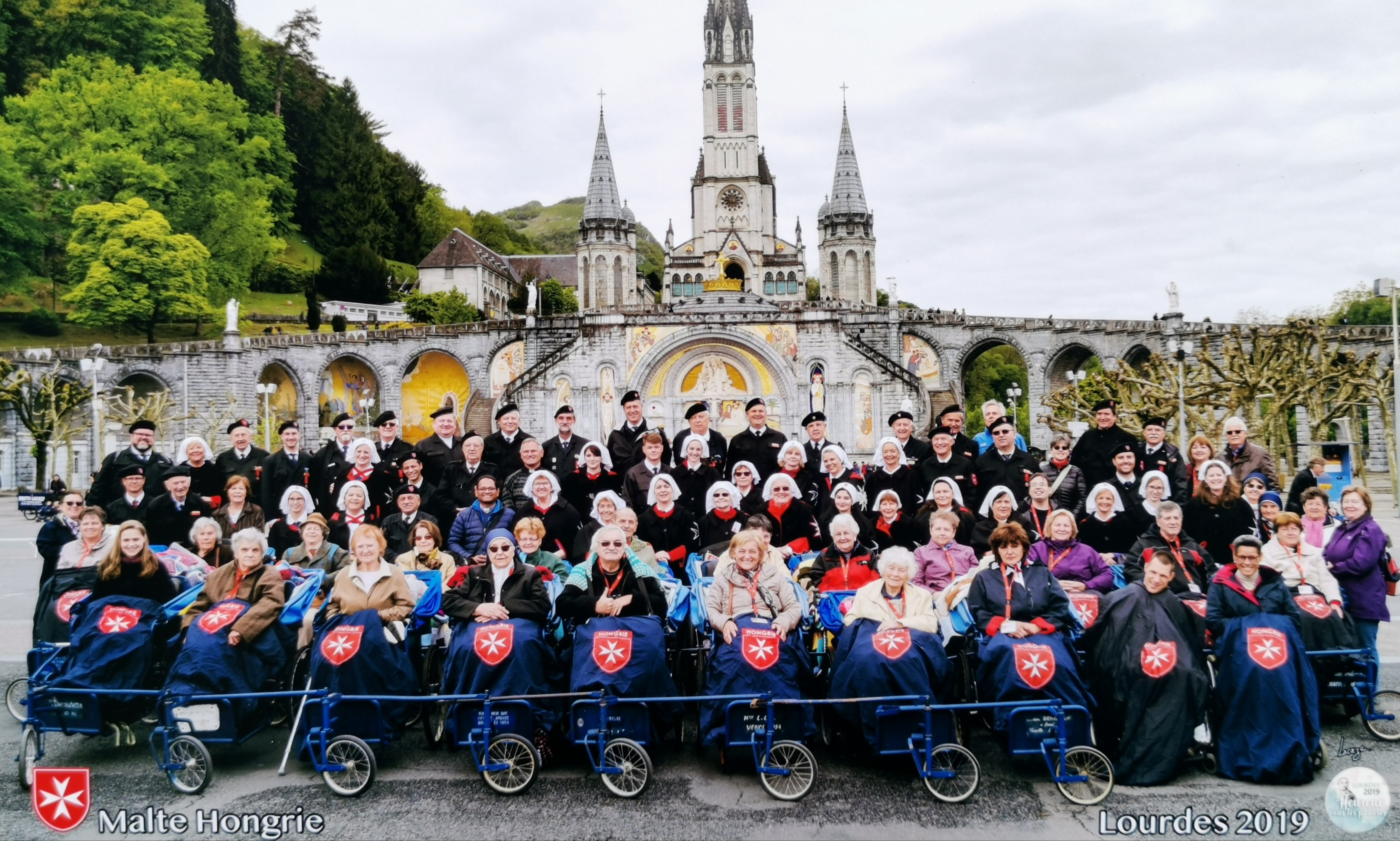 fznor